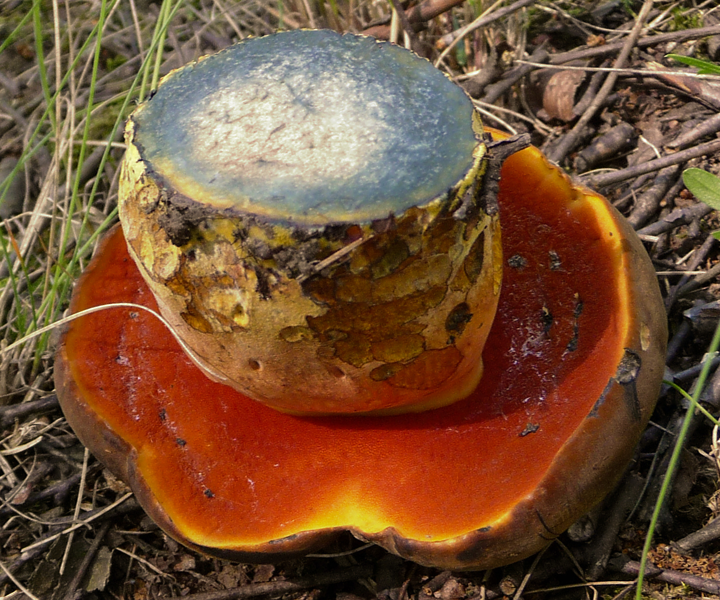 Dotted Stem Bolete Boletus erythropus. Yellow color become blue quickly on cutting (after few seconds). Ukraine.